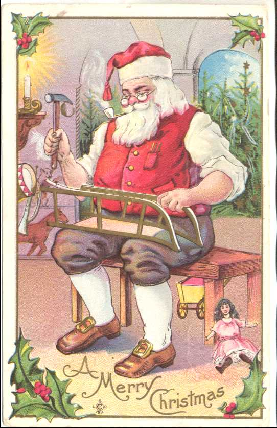 Christmas postcard, 1911